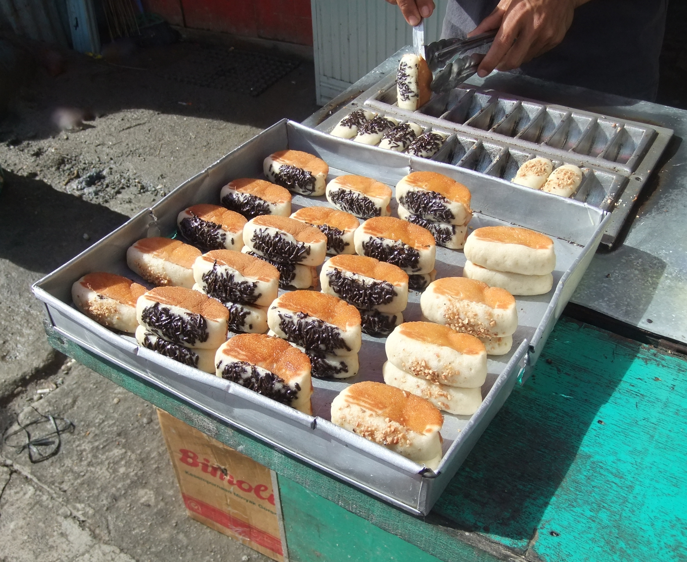 Kue pancong di pasar Rantepao